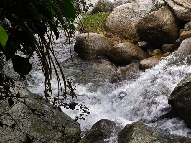 Riqueza hídrica de San Pablo